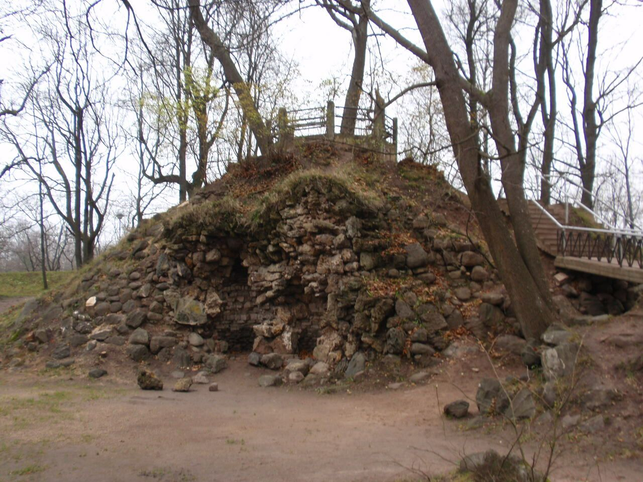 Musumägi ("Smooch Hill") on Toomemägi, Tartu, 2008.